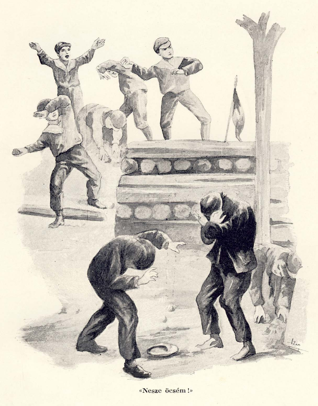 Ferenc Molnár: Pal Street Boys - The illustration of the first expense, 1907. Hungary, Nr. 10. Budapest, Hungary.